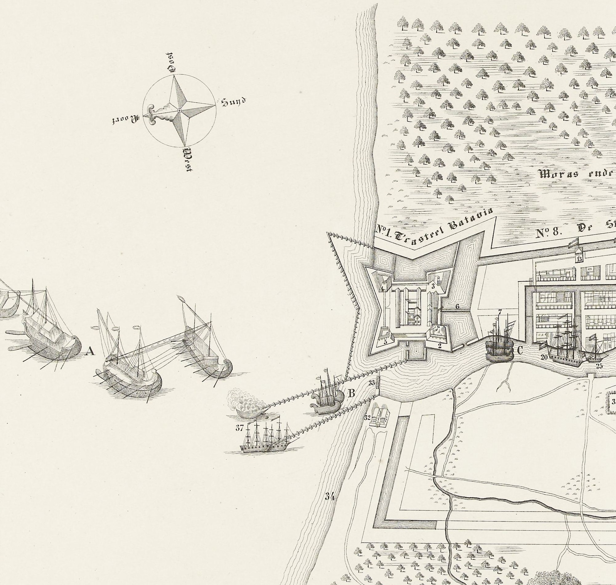 A cropped image showing Javanese fleet at the 1628 siege of Batavia. Original artwork was named Belegering van Batavia door de koning van Java, 1628.